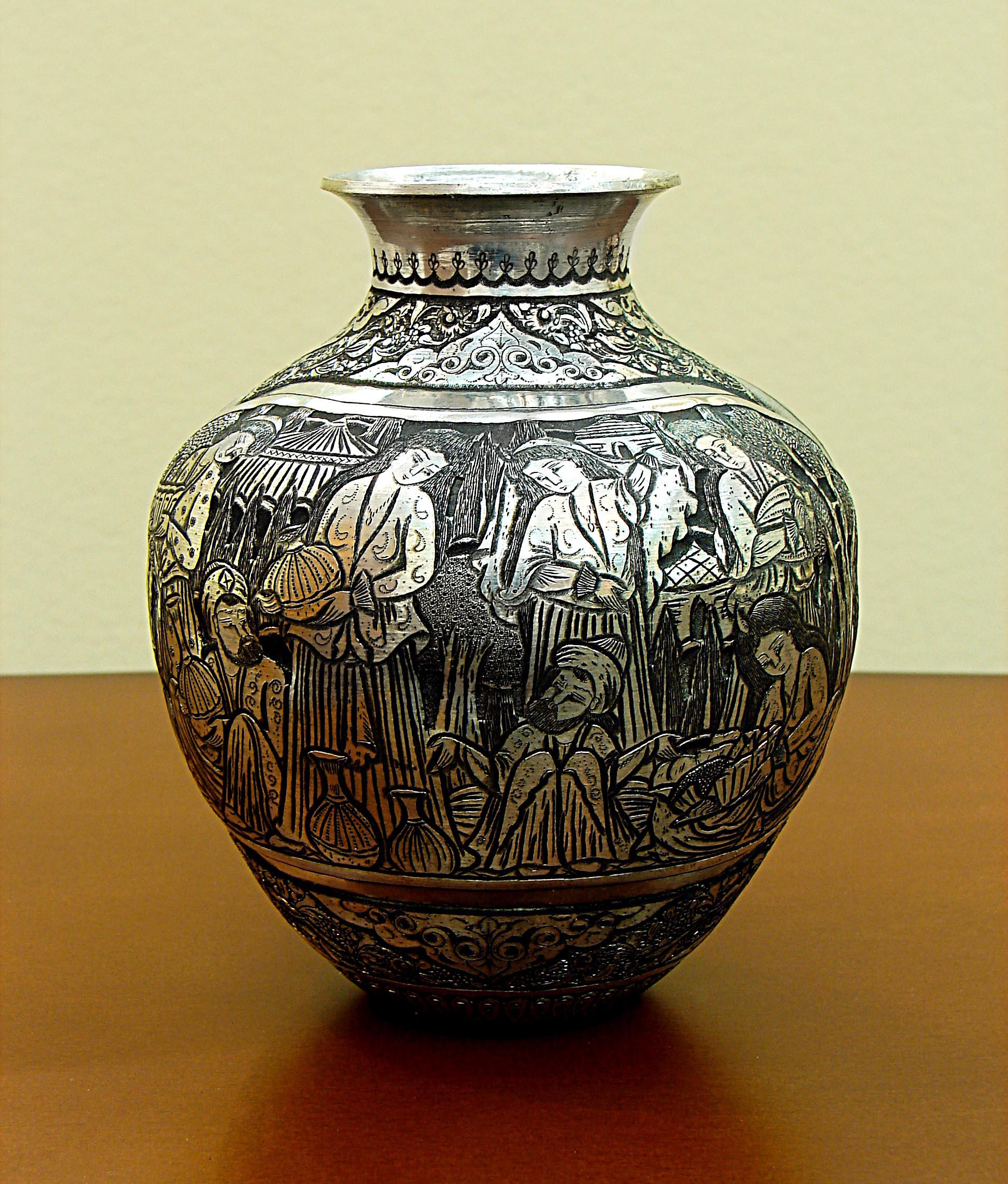 Small hand-made vase from Isfahan, Iran. Copper vase coated with tin.